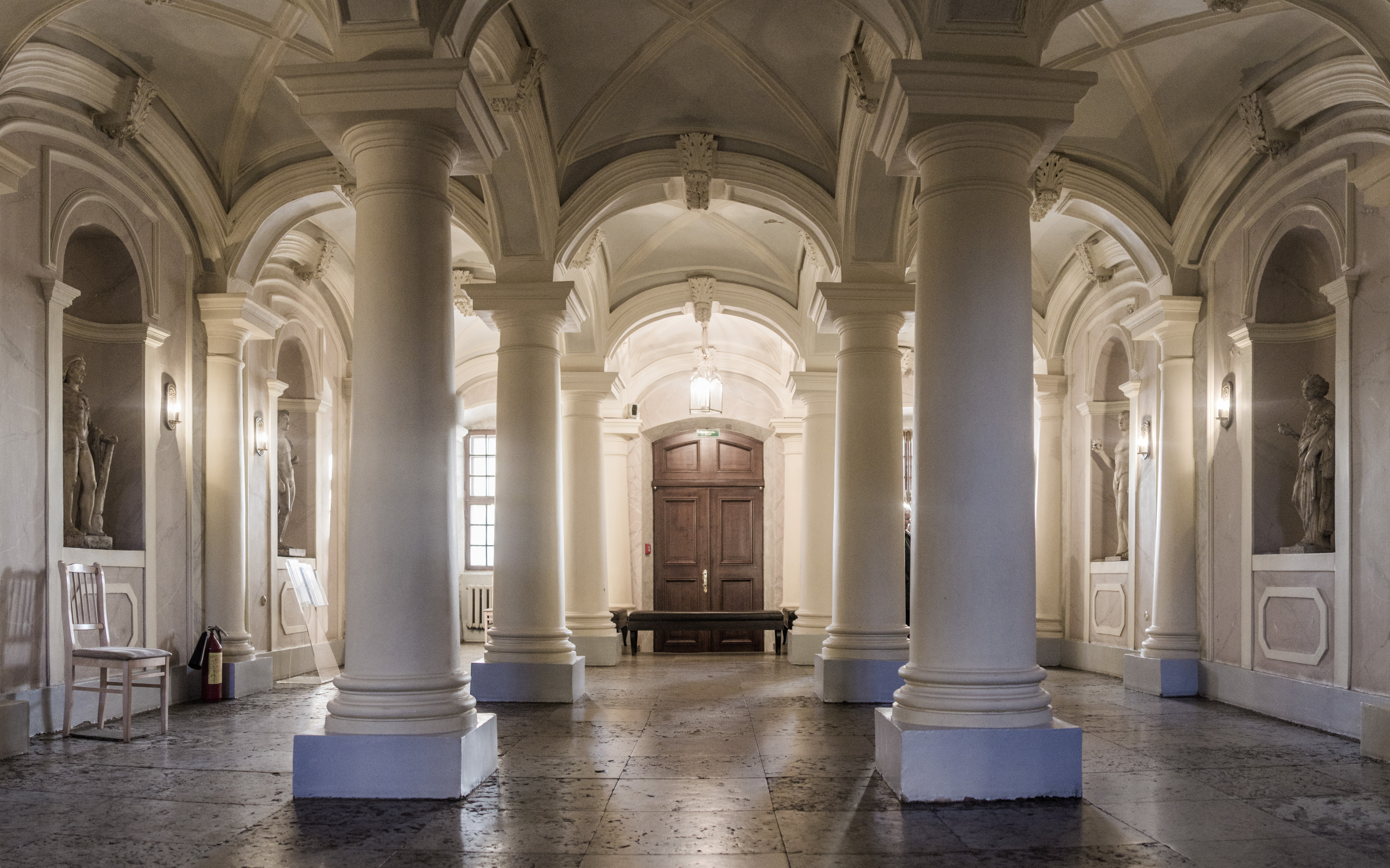 Menshikov Palace